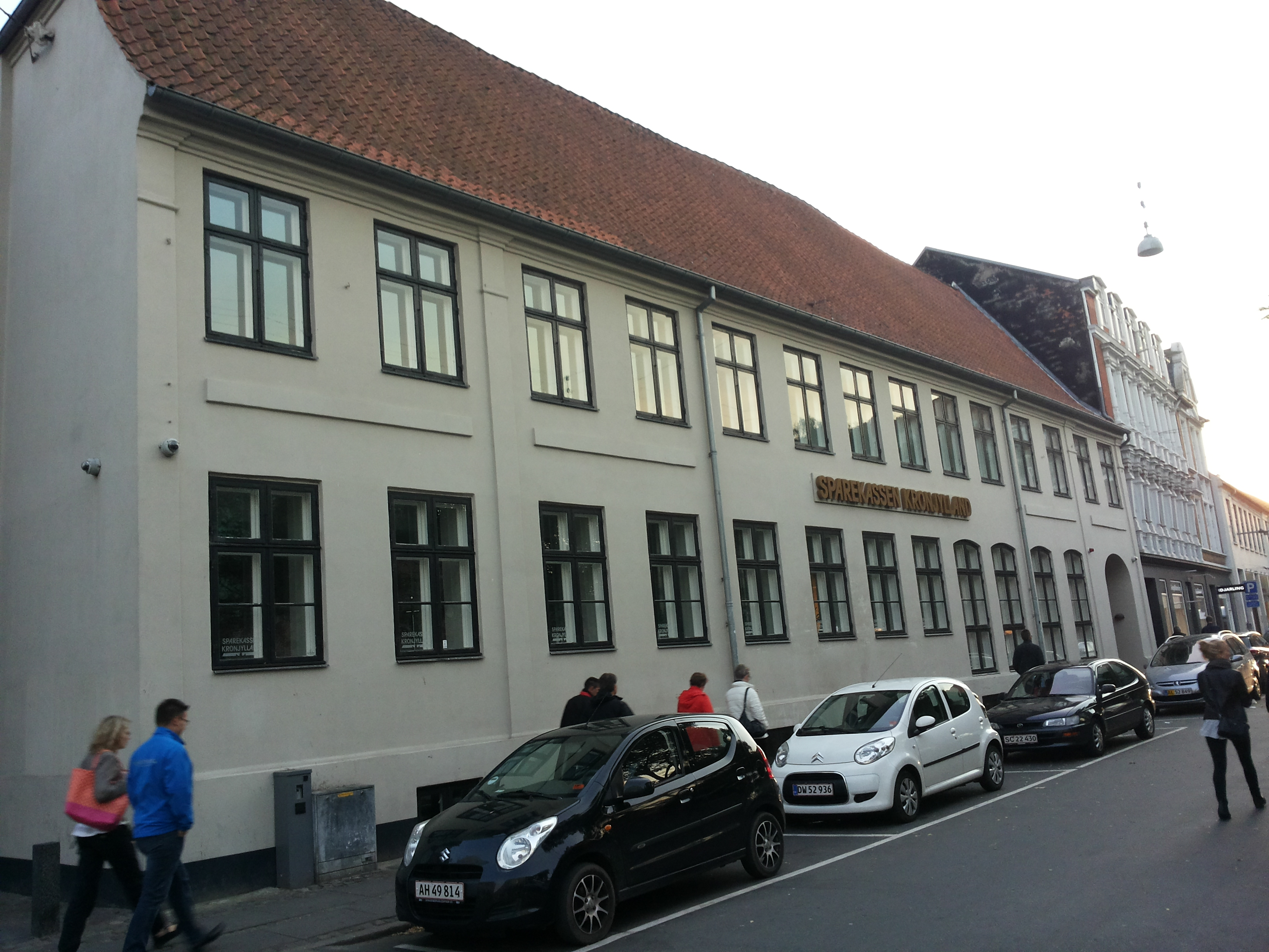 Købmand Herskinds Gård